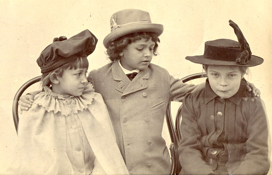 Children of Karl Hieronymus Dietrich Krause - Vera, Nikolay, Nina